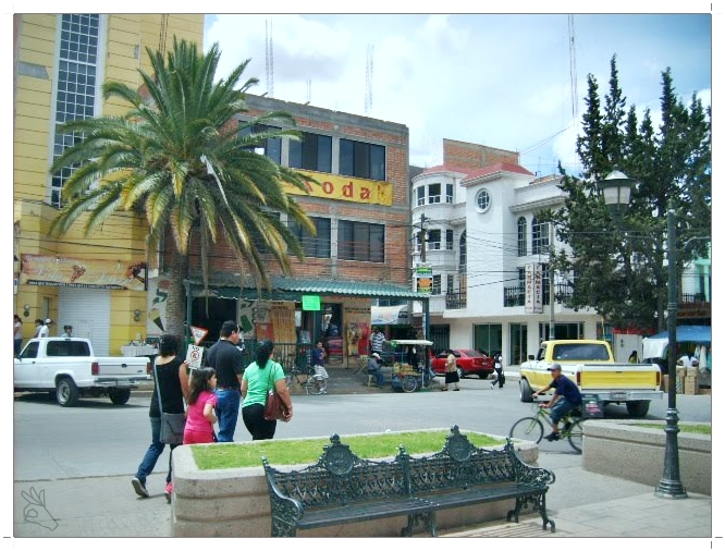 centro